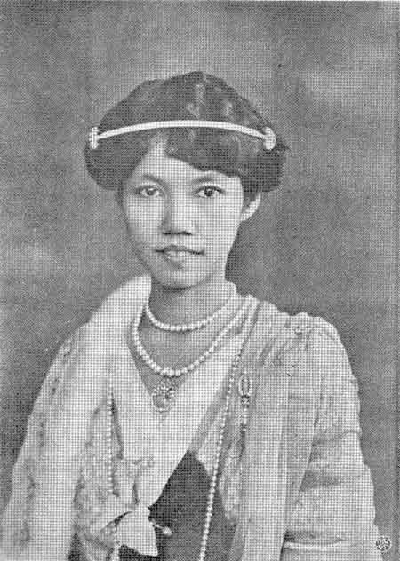 Princess Valaya Alongkorn